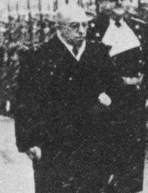 Emil Hácha, State President of Bohemia and Moravia in 1939.